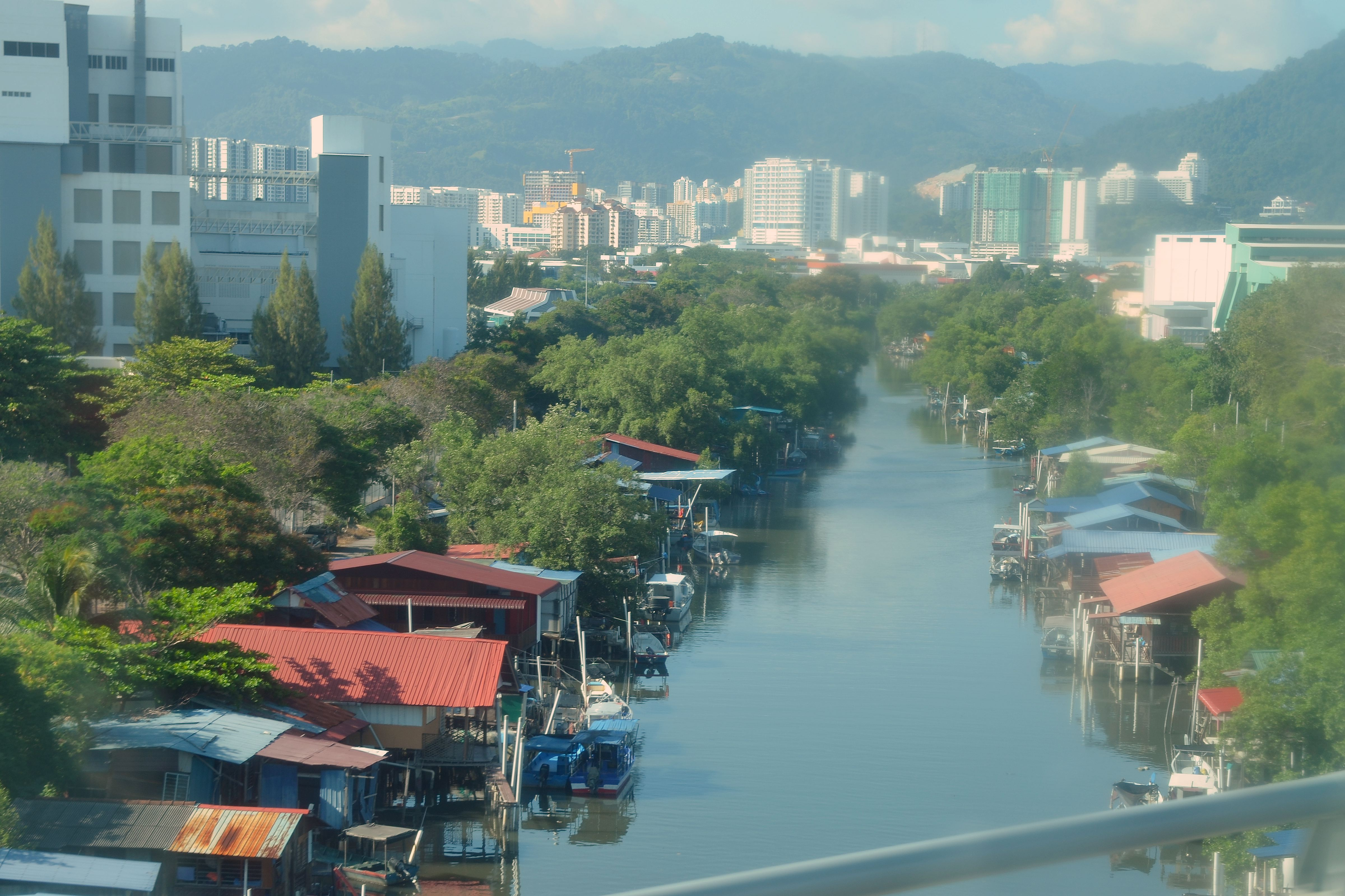 Kluang River, Penang viewed from the Tun Dr Lim Chong Eu Highway.